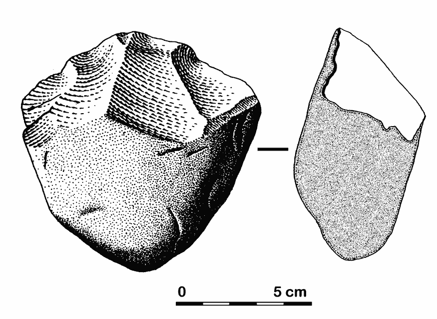 Lithic chopper in quartzite, its comes from a fluvial quaternary terrace in Águeda river (Salamanca, Duero basin, Spain) and it is dated in Acheulean period (Lower Paleolithic)